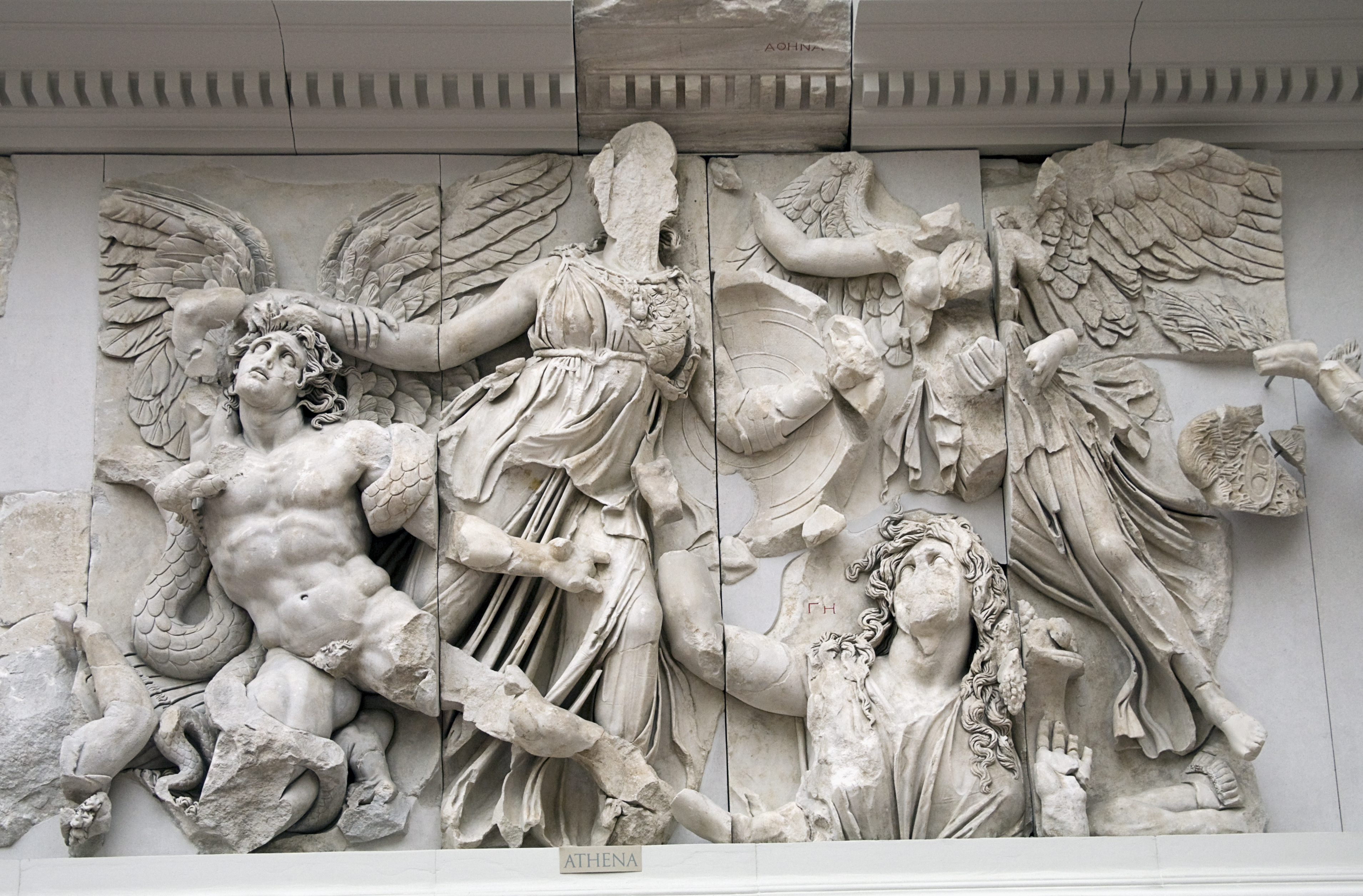 Pergamon Altar - Gigantomacy frieze - Athena